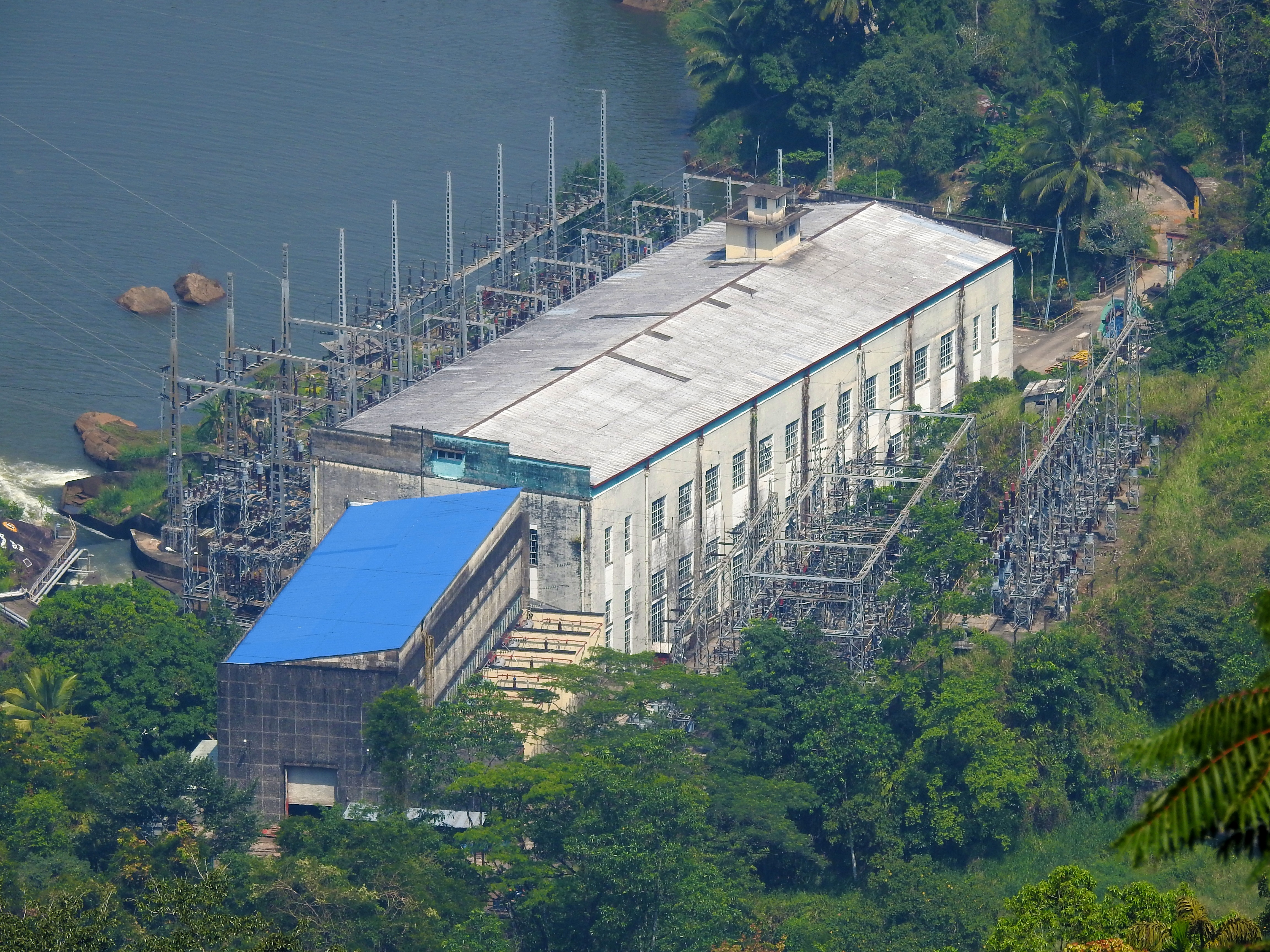 This photo was taken as part of a photo project by Wikimedia Community User Group Sri Lanka, covering current/future hydroelectric dams (and its surroundings) in the Central and Sabaragamuwa provinces of Sri Lanka. User:Rehman handled the photography, while User:Azeez and User:PasinduBR handled the logistics/planning of routes. Description of photo: Old Laxapana Power Station (while building), and the New Laxapana Power Station (blue roofed building), as seen from near Kiriwan Eliya. Further information on the subject(s) of the photograph can be found in the category/ies of this file.